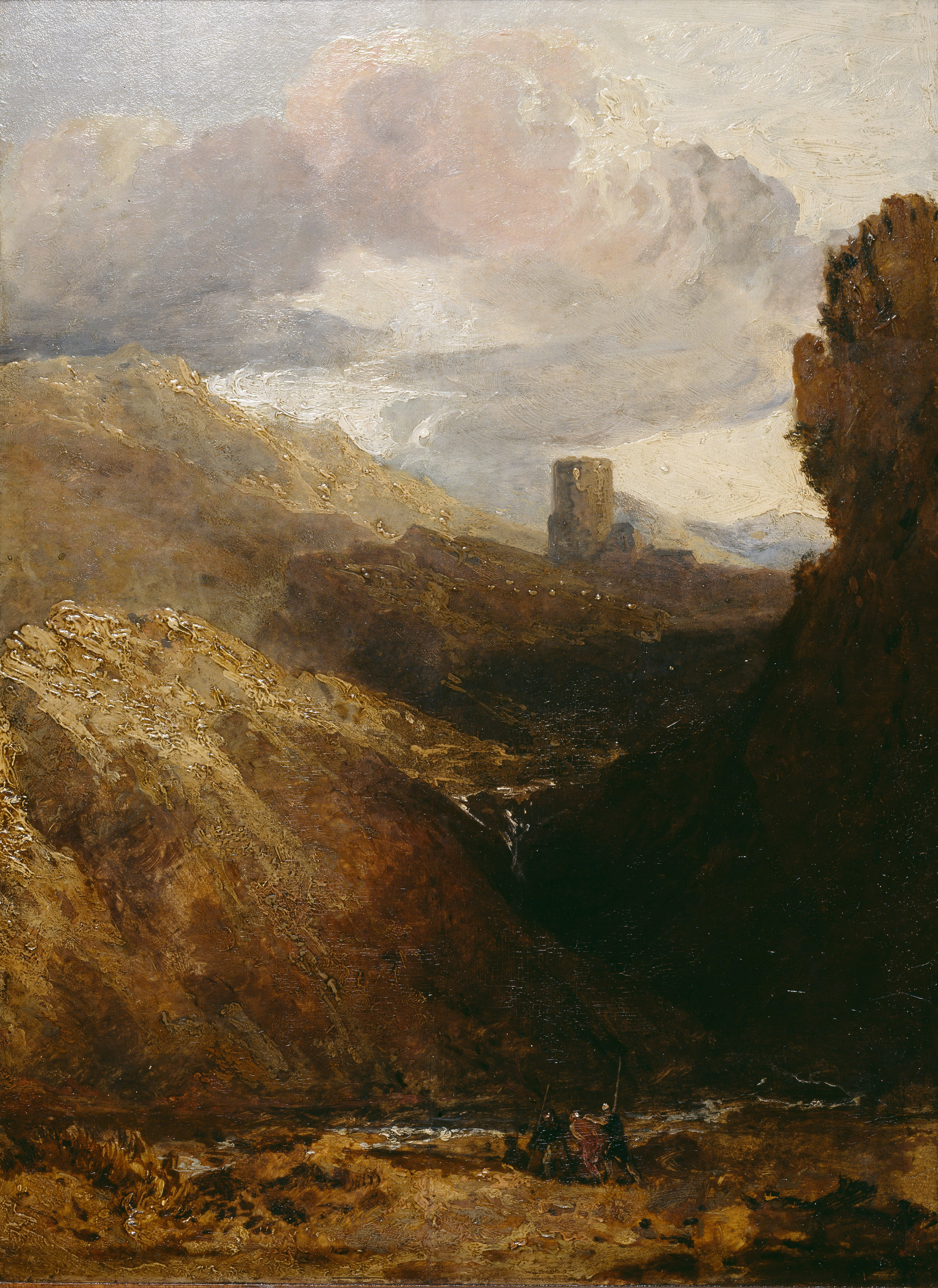 The picture was part of a long and detailed study of Welsh landscape by the artist. Turner's tour of Wales in the Summer of 1798 included a visit to Dolbadarn but his tour of 1799 resulted in the Dolbadarn Sketchbook (Tate Britain TB XLVI)and numerous studies. On his return to London Turner undertook a large scale project to develop the ideas of tragic Welsh history and wild mountain landscape. The present work was part of that project and a culmination of his drawings and watercolours where he changes pace towards the grand oil painting which he offered to the Royal Academy as his diploma piece in 1800. The painting depicts a tragic moment in Welsh history: in 1255, Owain Goch the brother of Llywelyn ap Gruffydd ( Y Llyw Olaf,obit. 1282) was imprisioned at the tower until a release order was given in 1277. This event marked an important aspect of the break up of native Welsh rule. Owain is shown wearing a red tunic, led by soldiers to Dolbadarn tower, which was set at a considerable height in the middle distance.